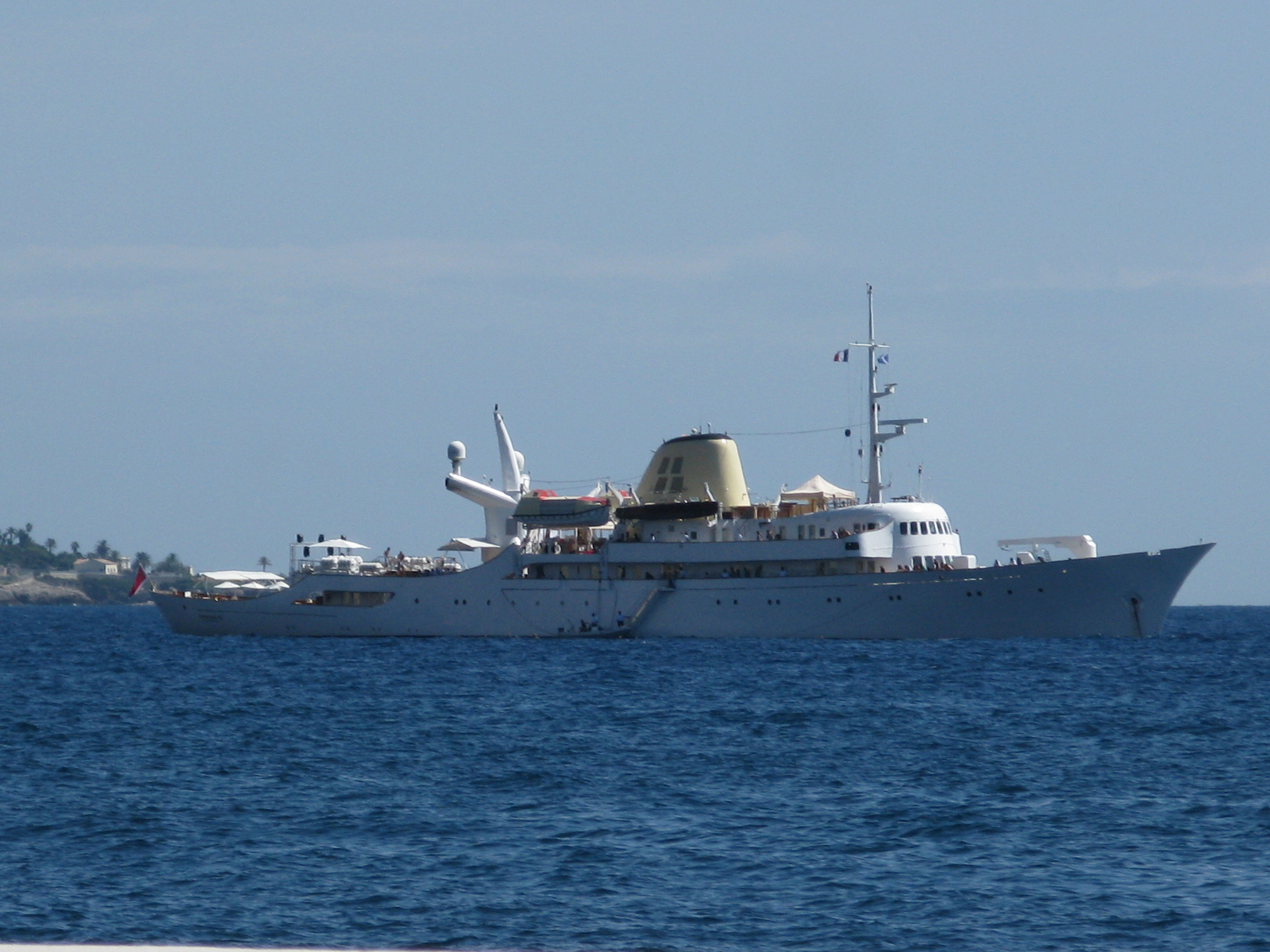 The Christina O. in Beaulieu, French Riviera